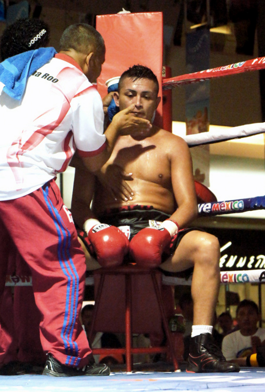 "Rudy" López sitting on his corner bench at the Kukulcán Plaza in Cancún, Quintana Roo, Mexico on October 6, 2011.